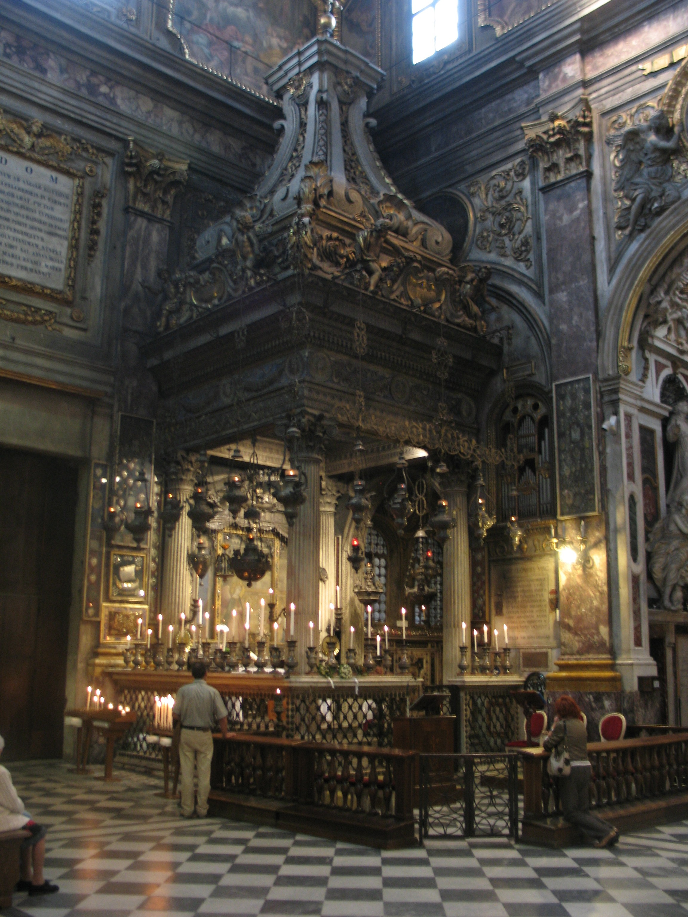 Interior of Santissima Annunziata in Florence